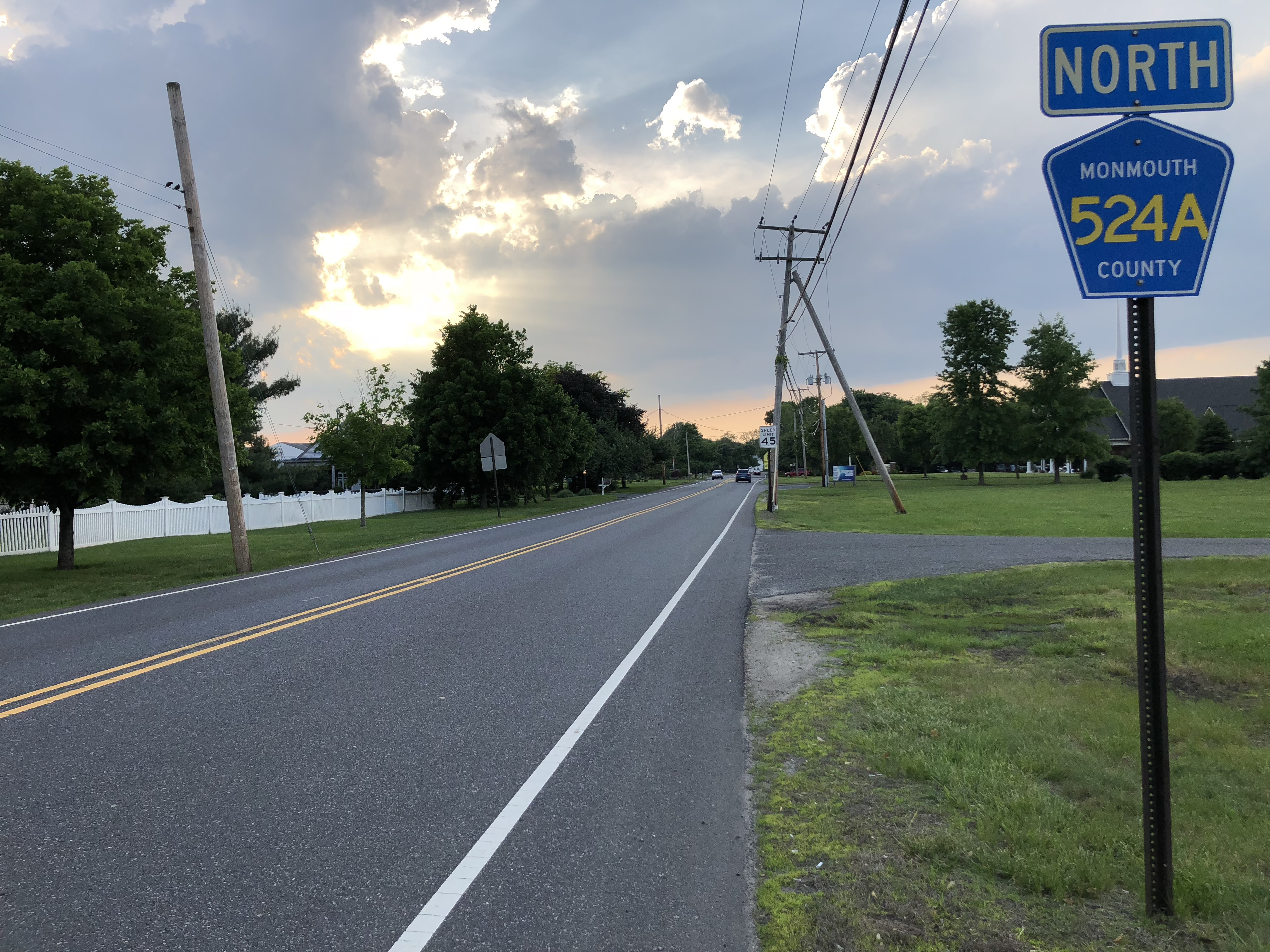 View north along Monmouth County Route 524 Alternate (Squankum-Yellowbrook Road) at Monmouth County Route 21 (Southard Avenue) in Howell Township, Monmouth County, New Jersey